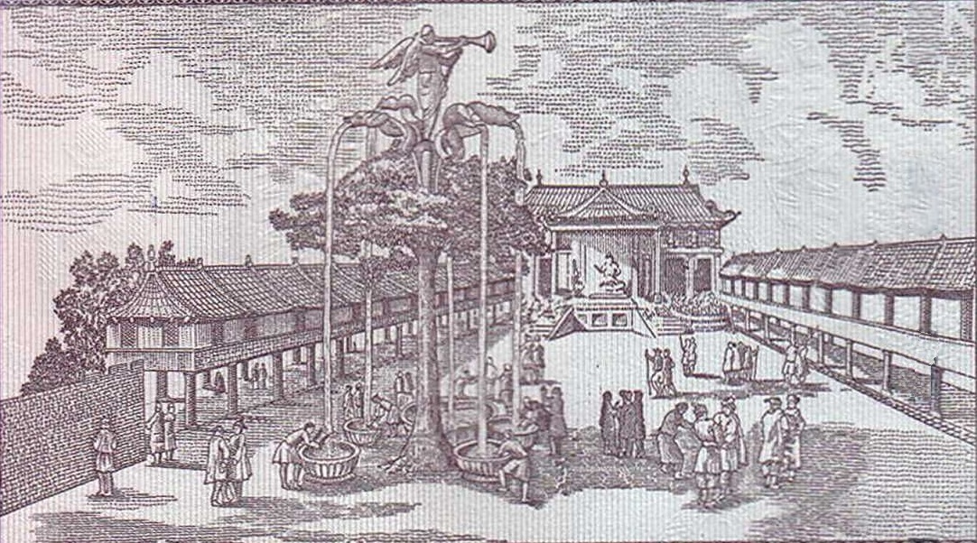 The Silver Tree at the court of Karakorum, after the Flemish William of Rubruck, a mechanical aïrag fountain tree built by Parisian silversmith Guillaume Bouchier.